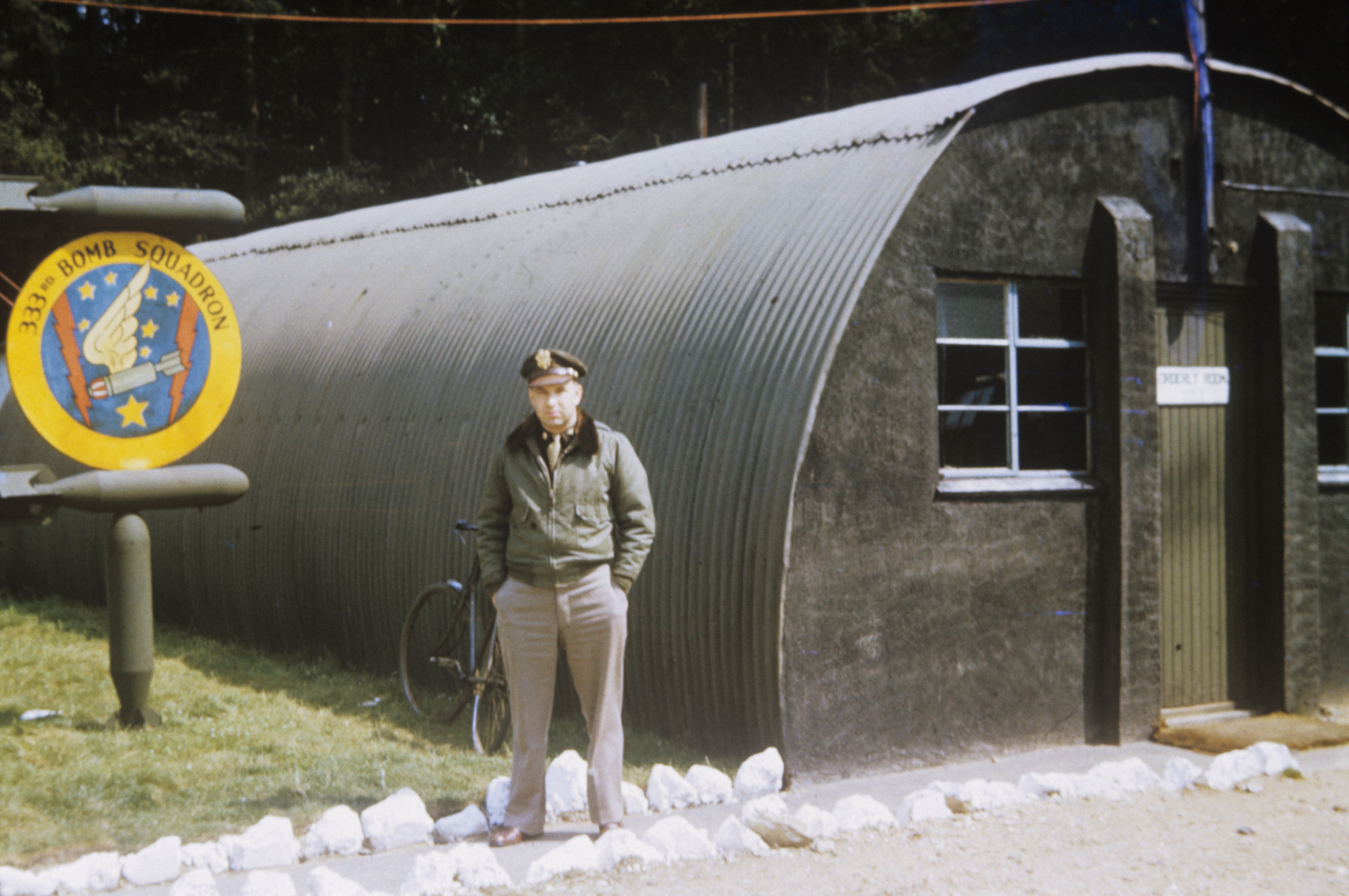 Major Byron Trent of the 94th Bomb Group outside a Nissen Hut at Bury St Edmunds (Rougham). Written on slide casing: 'Maj Trent, CO 333 BS, in front of Sqdn orderly room.'